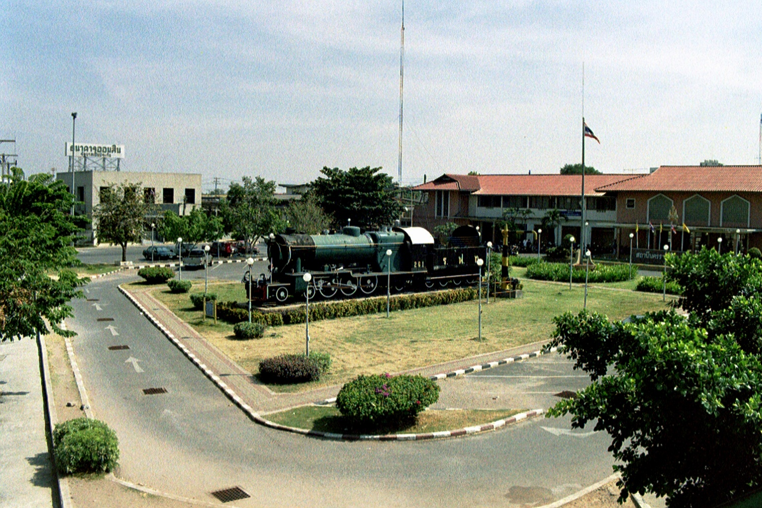 Nakhon Ratchasima Station, outside